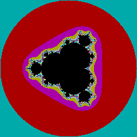 Complex recursive fractal, power 4